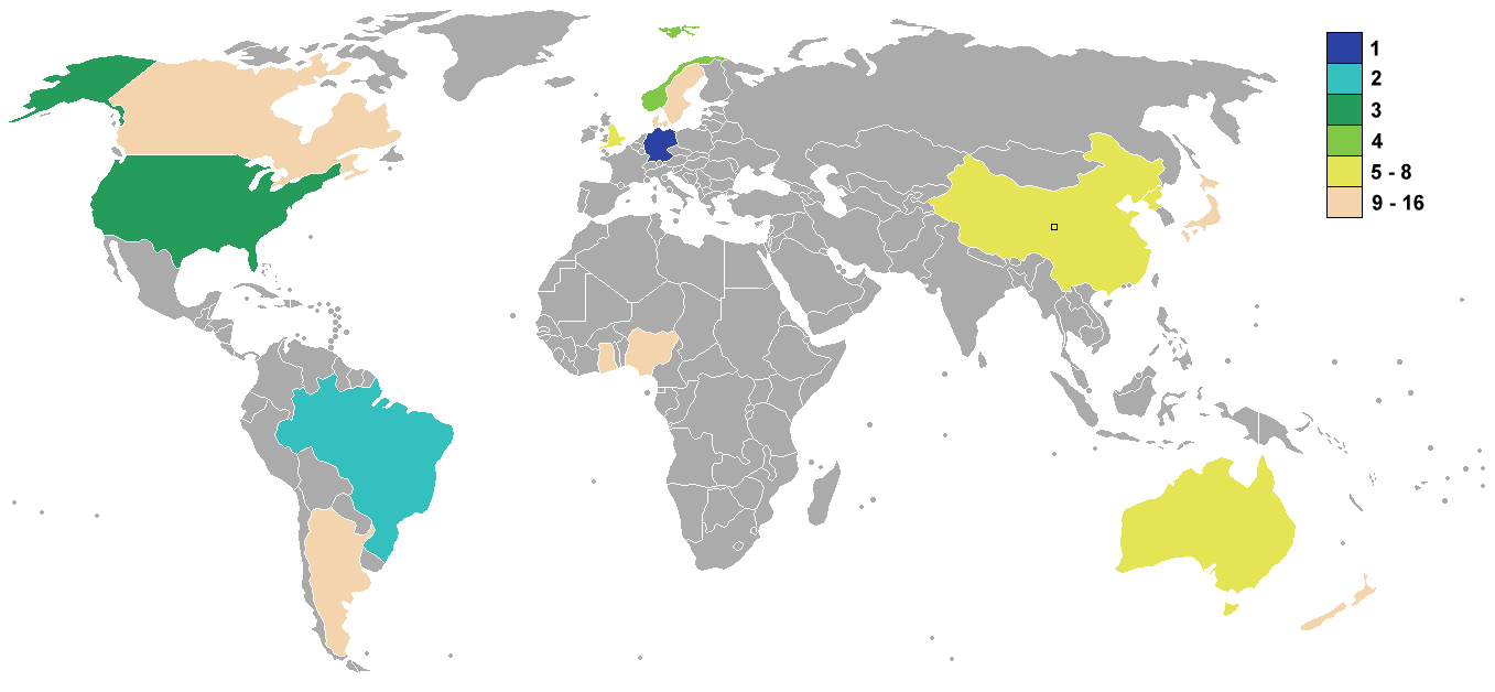 The results from the w:2007 FIFA Women's World Cup. (Unfinished) Made from Image:BlankMap-World-v5.png. 1st (dark blue) 2nd (light blue) 3rd (dark green) 4th (light green) Quarterfinals (yellow) Round 1 (peach)